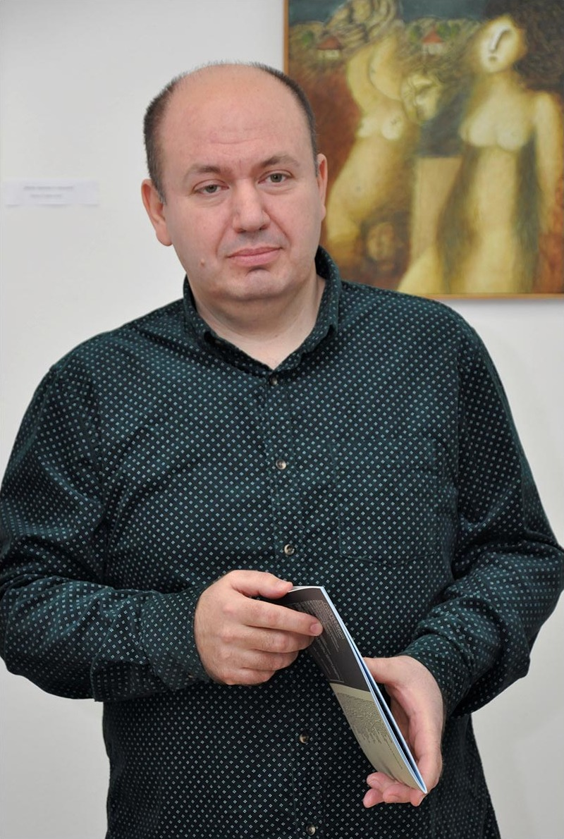 Dejan Bogojević (Valjevo, July 4, 1971) is a Serbian writer, anthologies editor, literary critic, essayist and visual artist. Српски (ћирилица): Дејан Богојевић (Ваљево, 4. јул 1971) српски је књижевник, антологичар, књижевни критичар, есејиста и ликовни уметник.